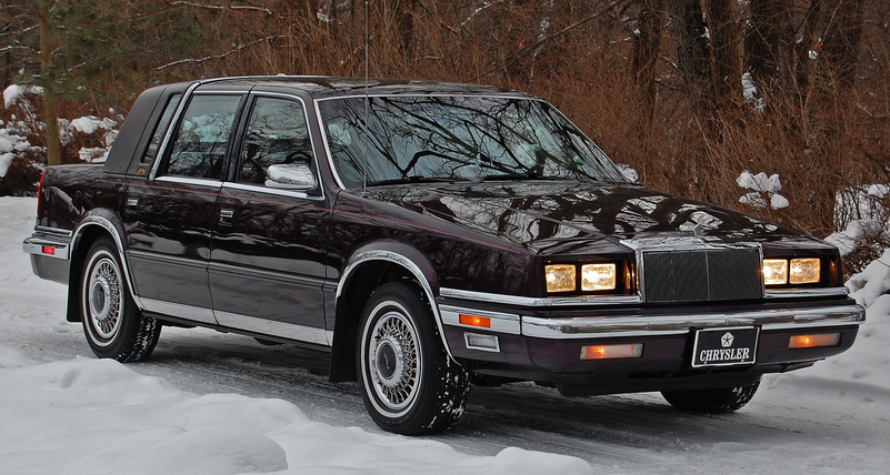 1991 Chrysler New Yorker Fifth Avenue Mark Cross Edition sedan (headlight covers open because lights are on)